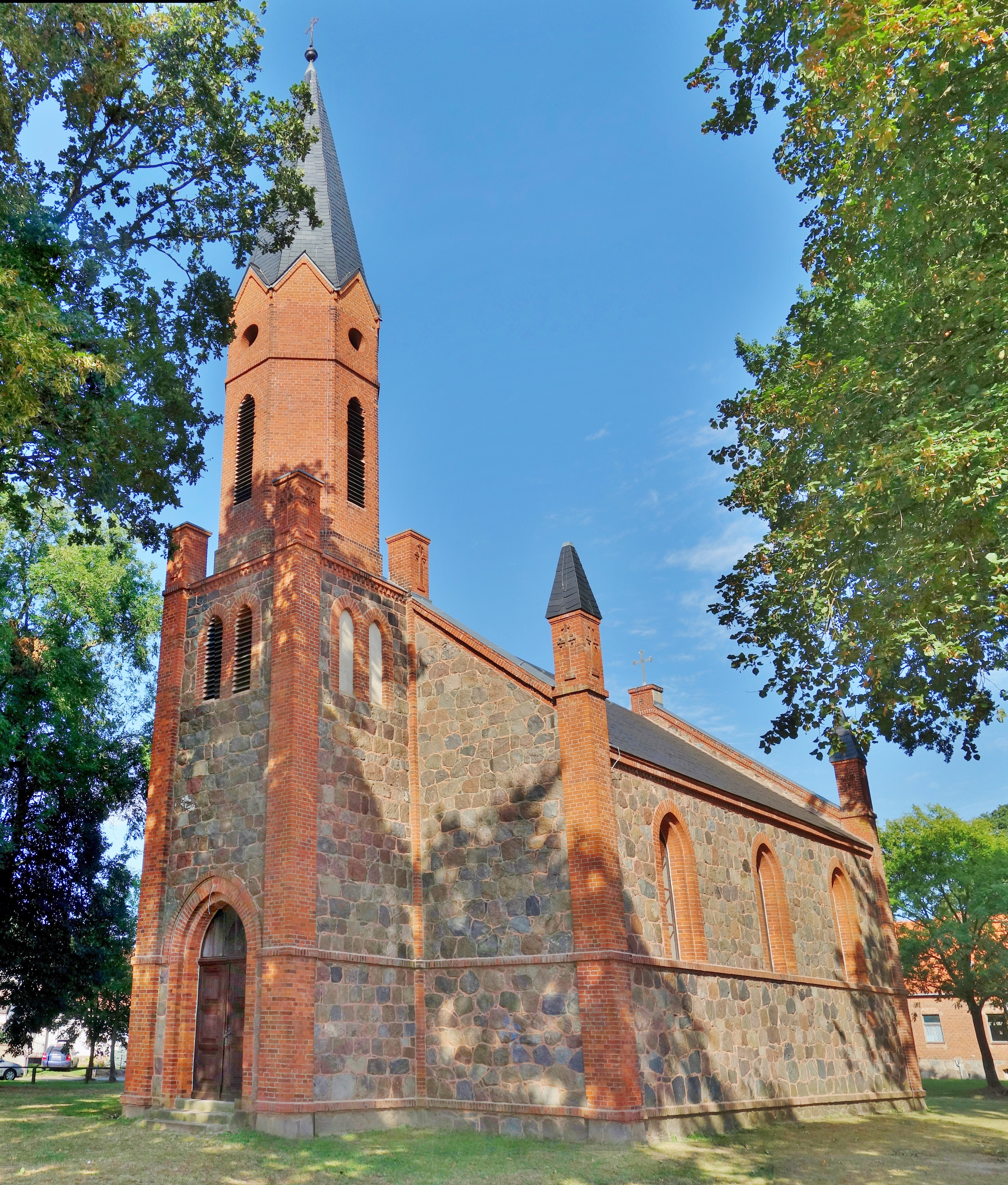 South-western view of church in Brügge, Halenbeck-Rohlsdorf municipality, Prignitz district, Brandenburg state, Germany